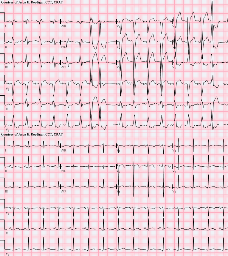 (TOP): Rare combination of left bundle-branch block (LBBB) accompanied by right axis deviation (RAD) is highly suggestive of primary dilated or congestive cardiomyopathy; (BOTTOM): Same patient about 5 months later status-post orthotopic heart transplant.